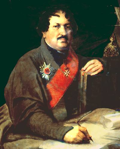 Prince Ioane Batonishvili Bagrationi